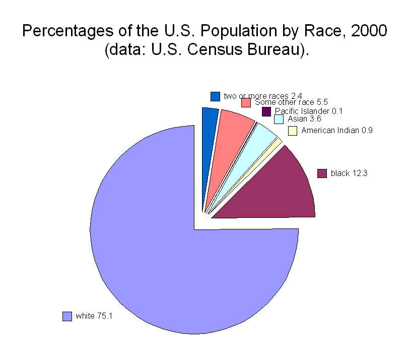 This is a chart showing the racial make-up of the U.S. in 2000.